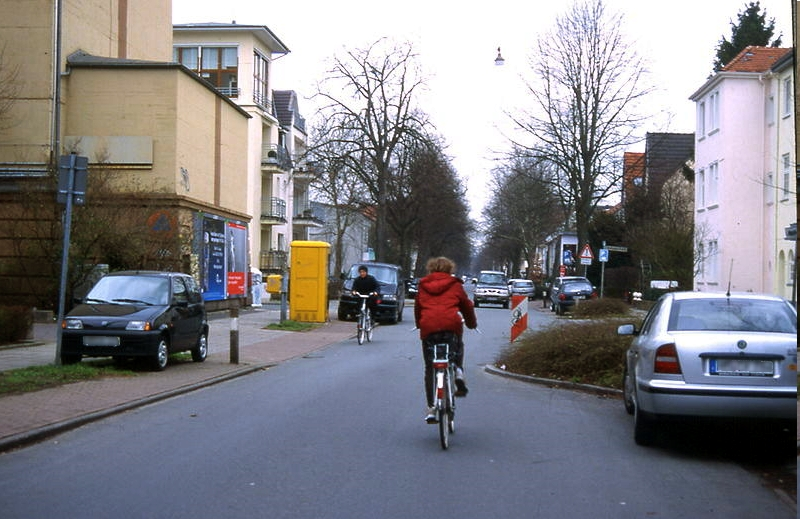 Residential street in Bremen; after the reduction of the speed limit to 30 km/h, the cycletracks on both sides have been abolished.